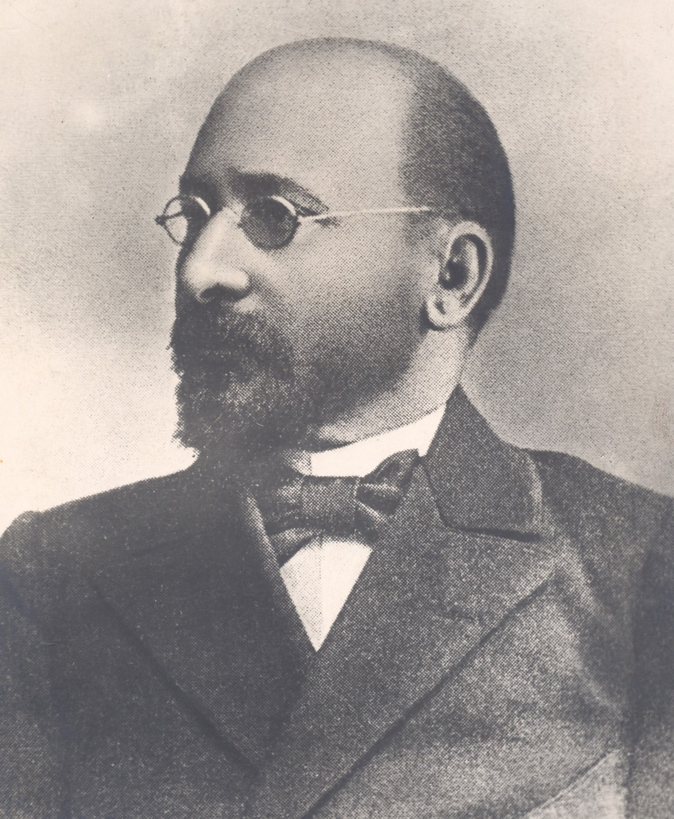 Najaf bey Vezirov